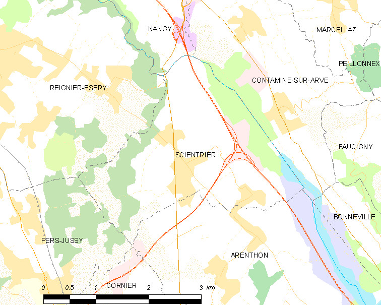 Map of French municipality Scientrier